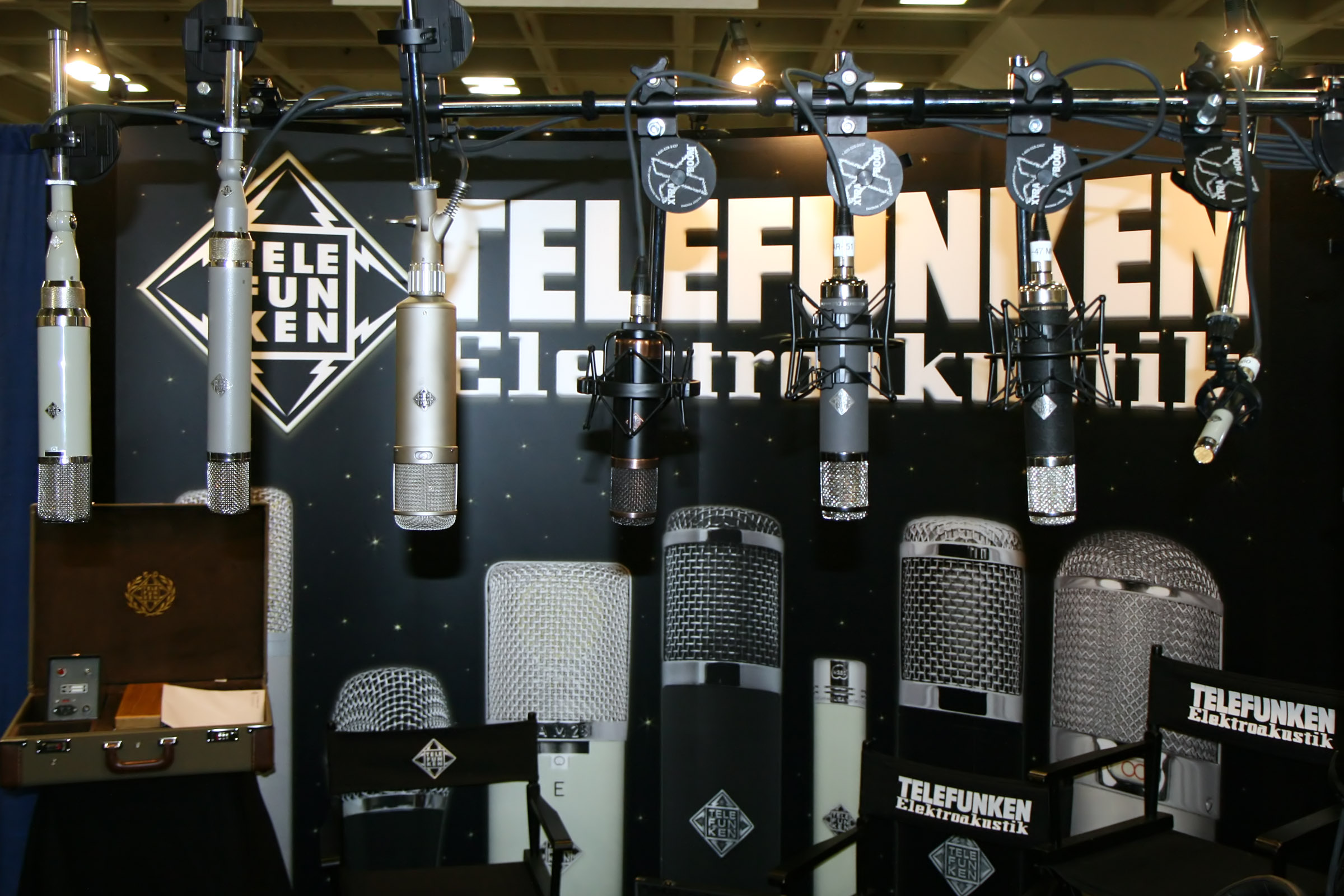 Telefunken Elektroakustik, AES 2010 This photo is licensed under a Creative Commons license. If you use this photo, please list the photo credit as "matthew mcglynn / " and link the credit to .